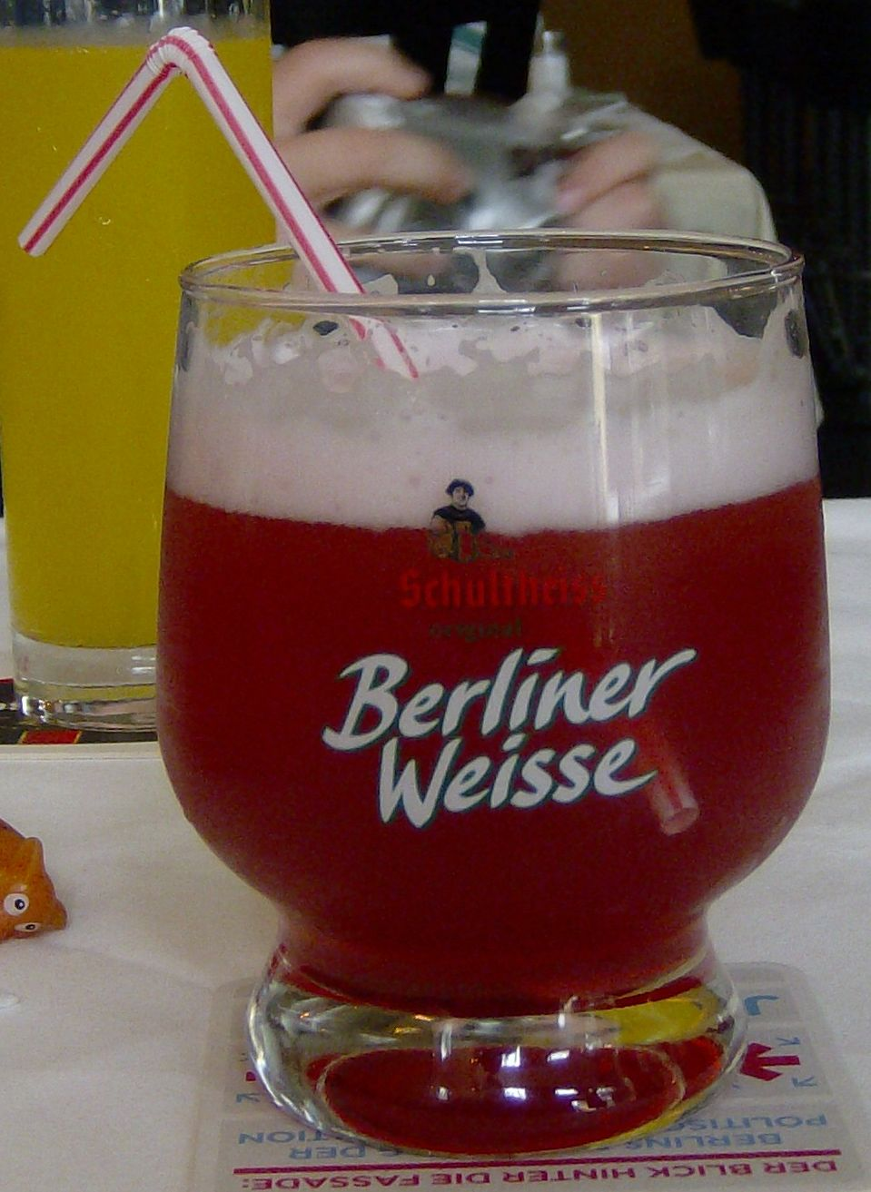 Berliner Weisse with raspberry syrup and straw